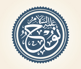 The calligraphic logo of Prophet Nuh (Noah) with background.